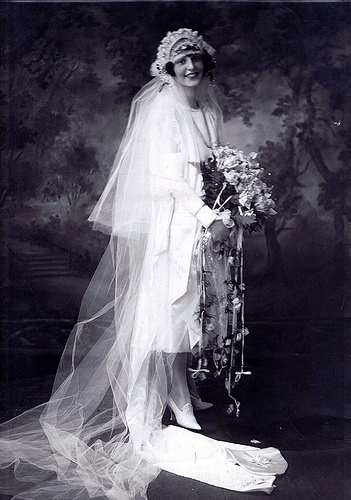 Bride Peggy Fish wearing a satin and net bridal dress with ruche-trimmed neckline and dropped waist that makes a deep V, extending to form a ruche-trimmed cutaway skirt that flares open to reveal the legs; satin strapped slippers; triangular-shaped piece of starched Russian lace forms the front of the tulle headdress. --- Image by Cond